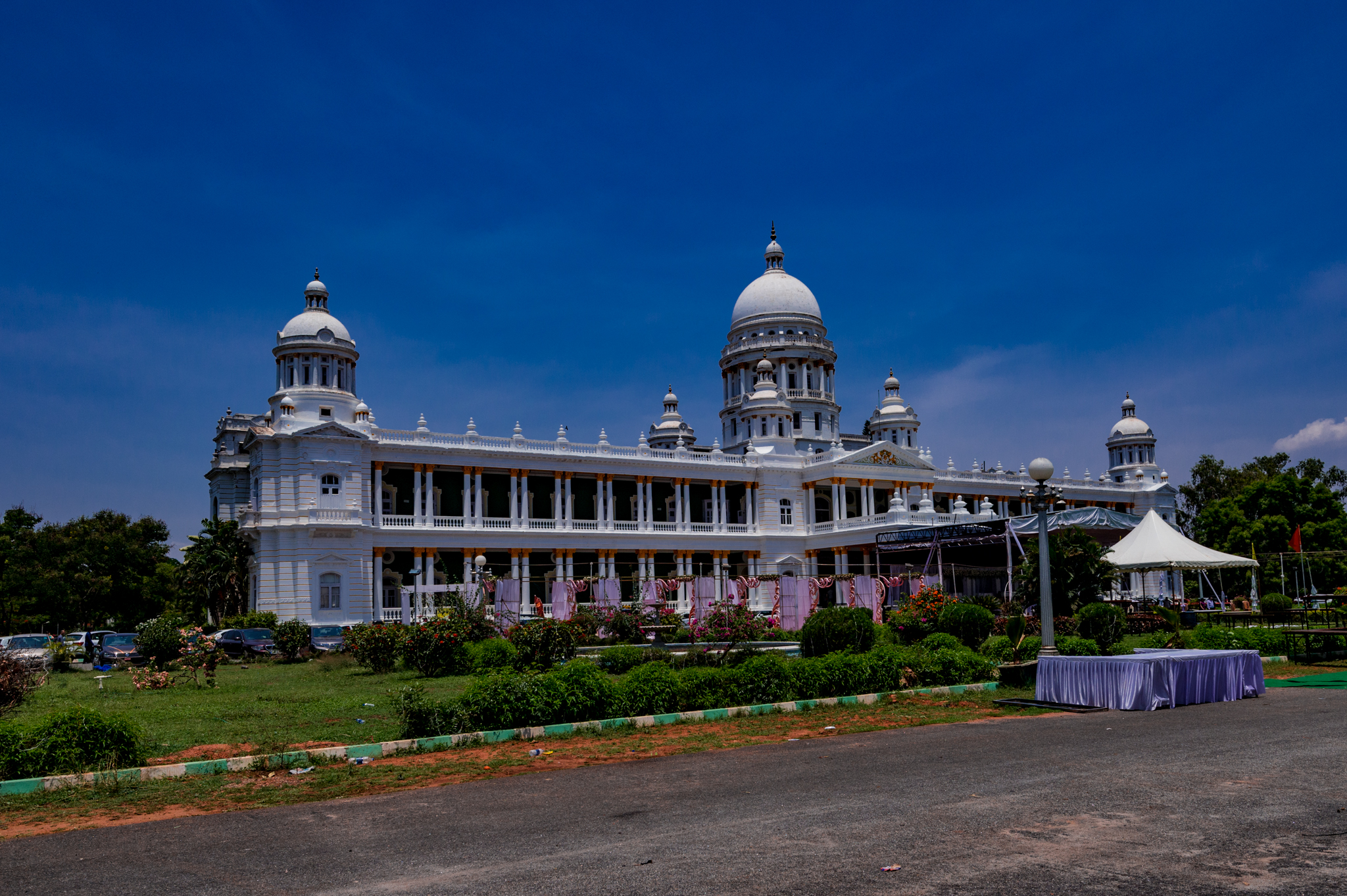 The Lalitha Mahal is the second largest palace in Mysore. It is located near the Chamundi Hills, east of the city of Mysore in the Indian state of Karnataka. The palace was built in 1921 at the orders of His Highness Krishnaraja Wodeyar IV, the Maharaja of Mysore for the exclusive stay of the then Viceroy of India. Built on a raising ground, the palace was fashioned on the lines of the St. Paul’s Cathedral in London and is one of the imposing structures of the Mysore city.